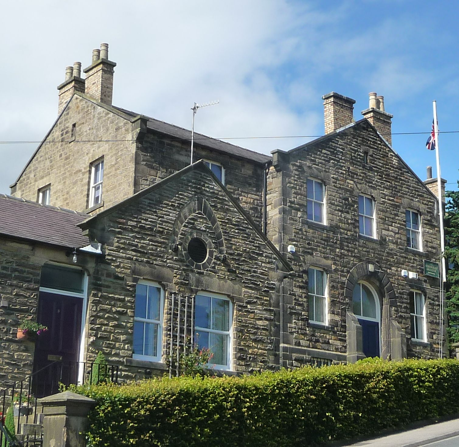 The Nidderdale Museum has a large collection illustrating all aspects of life in Nidderdale.